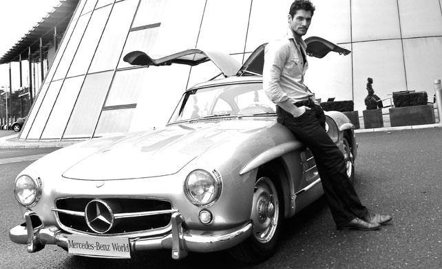 David Gandy for British GQ (2011)